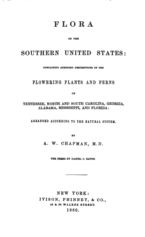 Title page of Chapman's book Flora of the Southern United States